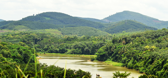 Scenery of Areekode in Malappuram District